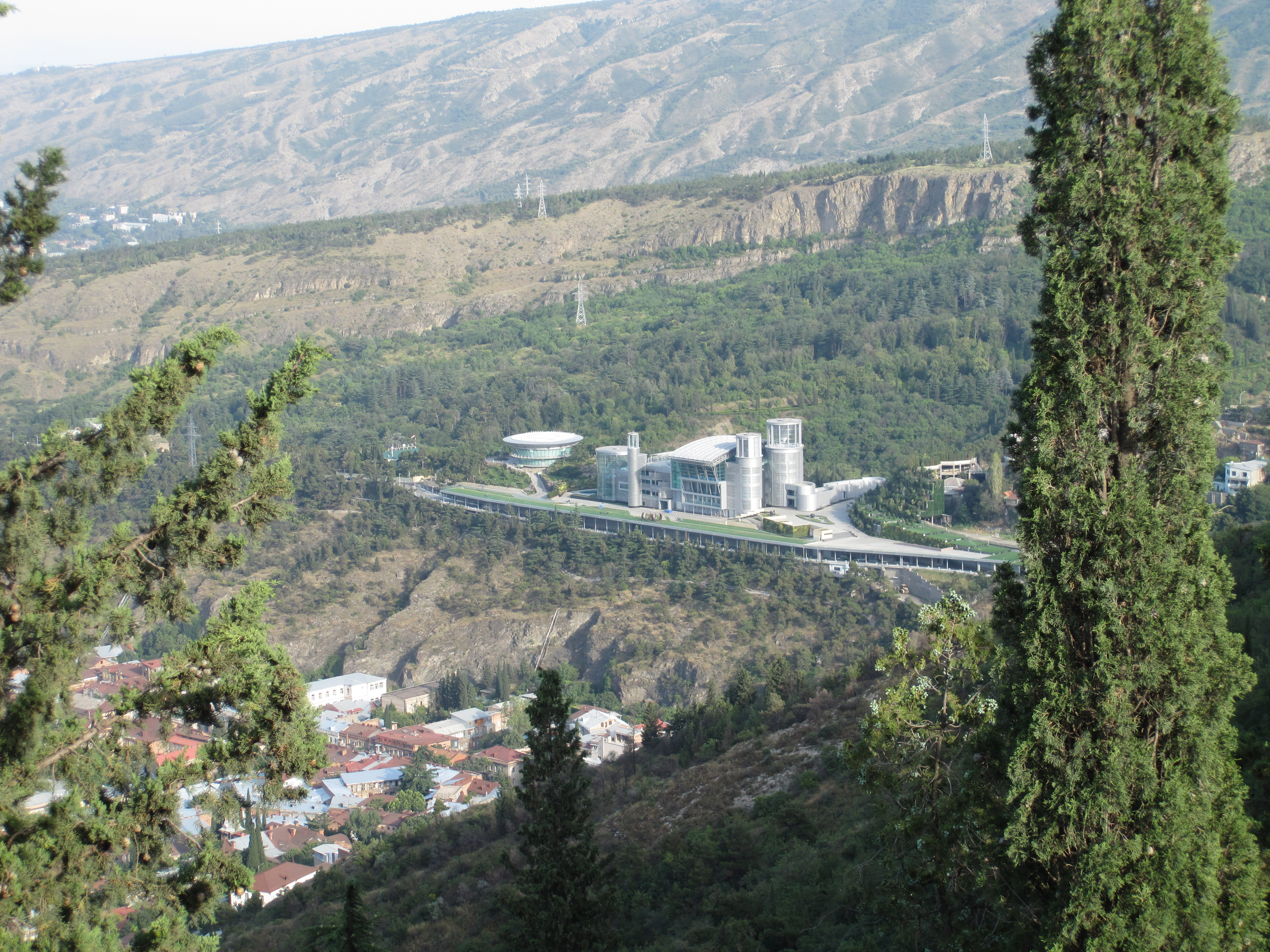 The residence and trade center owned by the Georgian tycoon Boris (Bidzina) Ivanishvili in Tbilisi